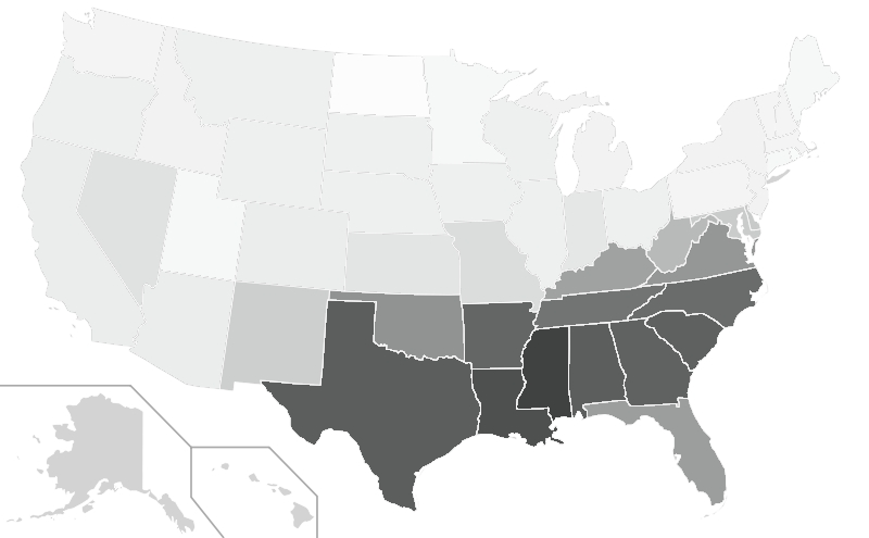 Frequency of using "Y'all" to address multiple people, according to an Internet survey of American dialect variation.